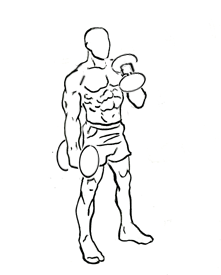 an exercise of biceps and forearms